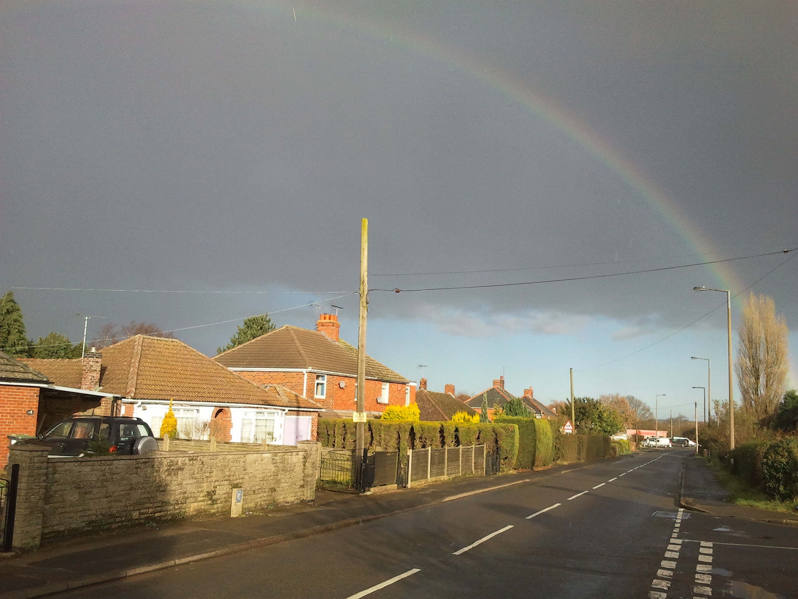 Jerusalem Road, which leads to a hamlet outside of Skellingthorpe, Lincolnshire, called Jerusalem. No-one knows quite how the hamlet earned its name.